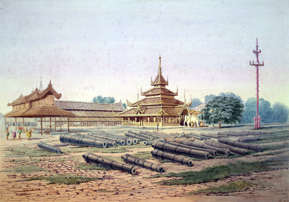 Watercolour with pen and ink of the ceremonial pavilion in the Palace occupied by a rare and auspicious white elephant kept by the King from 'A Series of Views in Burmah taken during Major Phayre’s Mission to the Court of Ava in 1855' by Colesworthy Grant. This album consists of 106 landscapes and portraits of Burmese and Europeans documenting the British embassy to the Burmese King, Mindon Min (r.1853-1878). The mission to Amarapura took place after the Second Anglo-Burmese War in 1852 and the annexation by the British of the Burmese province of Pegu (Bago). It was despatched by the Governor-General of India Lord Dalhousie on the instructions of the East India Company, with the aim of persuading King Mindon to sign a treaty formally acknowledging the extension of British rule over the province. The mission started out from Rangoon (Yangon) and travelled up the Irrawaddy (Ayeyarwady) River to the royal capital of Amarapura, founded in 1782. Grant (1813-1880) was sent as the official artist. In recognition of his skill, he was presented with a gold cup and ruby ring by the Burmese King. A number of his drawings were used for illustrations to Henry Yule’s ‘A Narrative of the mission sent by the Governor General of India to the Court of Ava in 1855’ published in 1858. Grant wrote that: 'This building, the state room, as it may be termed, of the far famed 'Lord White Elephant' of Ava, is situated in the same grounds and on the same line with the Royal Palace...The sketch of the Royal animal himself here seen, was seized as he was re-entering the archway, after having been taken out for the purpose of being photographed by Captain Tripe; a concession which was made after some little difficulty and objections, and not until the whole of the golden umbrellas, eight in number, pertaining to his state, had been prepared and spread to protect him from possibility of danger by exposure to the sun!'